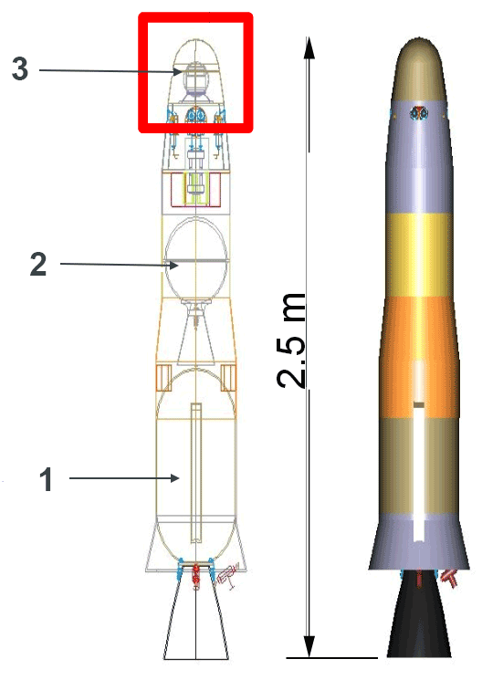 Mars-sample-return : Mars-ascent-vehicule-diagram